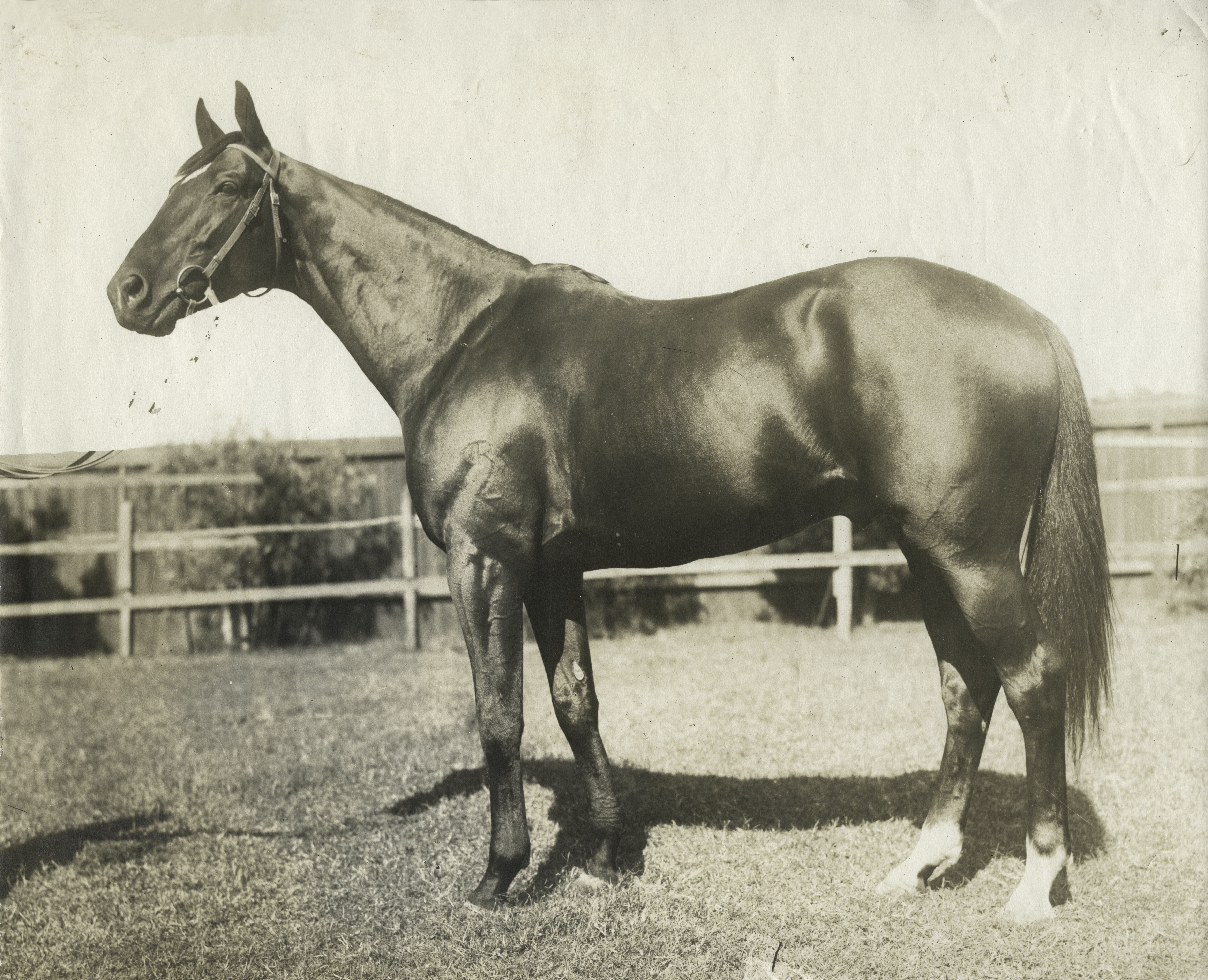 High resolution scan from original photo